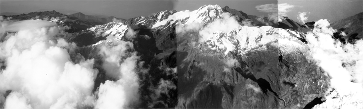 December 29, 1937. Ruwenzori Mountains: Panorama of the peaks. See Focus on Africa, fig. 197, and map p. 137, for identification. C. 20000 feet. 08:16.